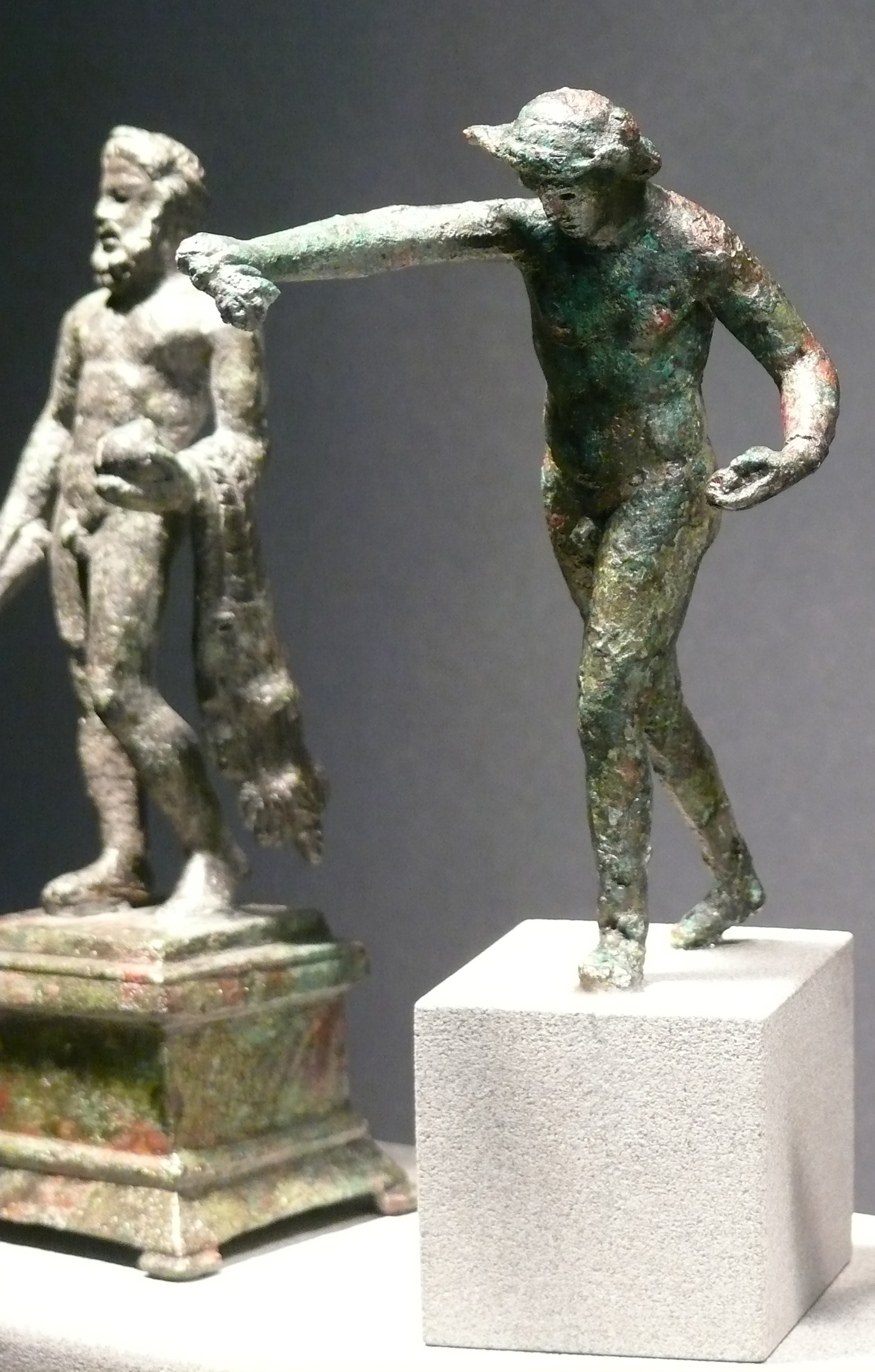 Somnus (Greek: Hypnos) with winged head poppy seed heads and a vessel. In the background Hercules. From the collection of the Roman Museum in Augst.